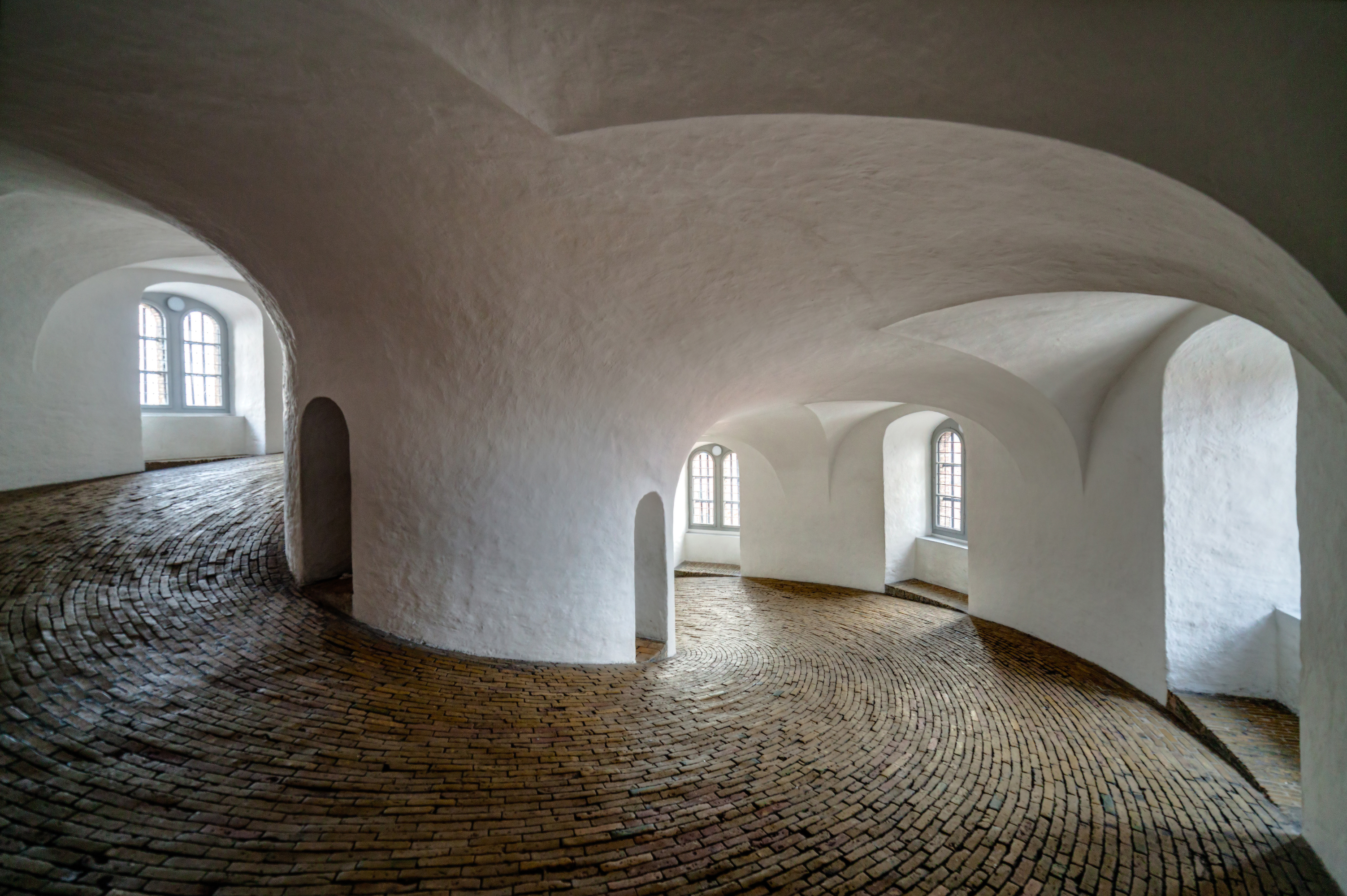 The Rundetaarn or Rundetårn (Round Tower), Copenhagen, Denmark.